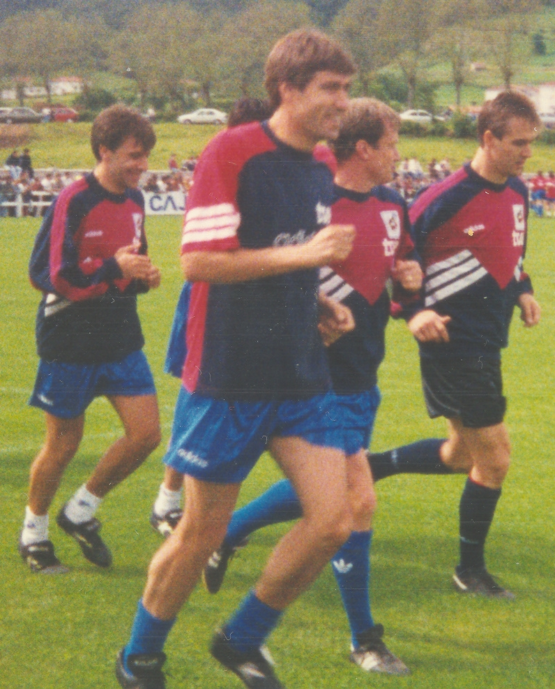 Ex-footballer Julio Salinas during a training session.